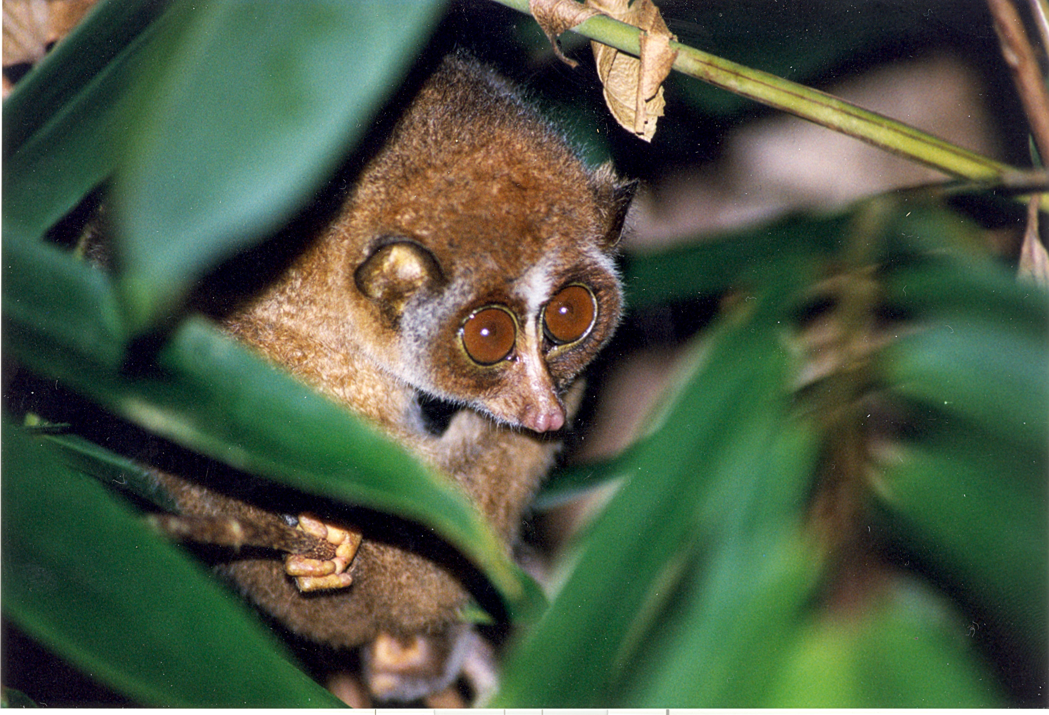 Red slender loris (Loris tardigradus tardigradus) from southwest Sri Lanka